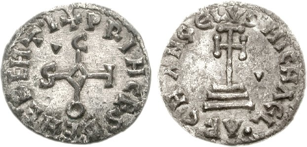 Lombards, Beneventum (nowdays Benevento. Sico. 817-832 AD. AR Denarius (1.17 g, 3h). + PRIHCES BEHEBEH • TI*, SICO monogram joined by pierced cross with central quadrangle; wedge in first quarter • ΛRCHΛNGELVS MICHΛЄL, cross potent on two steps; wedge to right. CNI XVIII 62/31 (obv./rev.); cf. BMC Vandals 11-2; cf. MEC 1, 1105. EF, lightly toned. From the Norman Frank Collection. Ex Classical Numismatic Group 63 (21 May 2003), lot 1606.